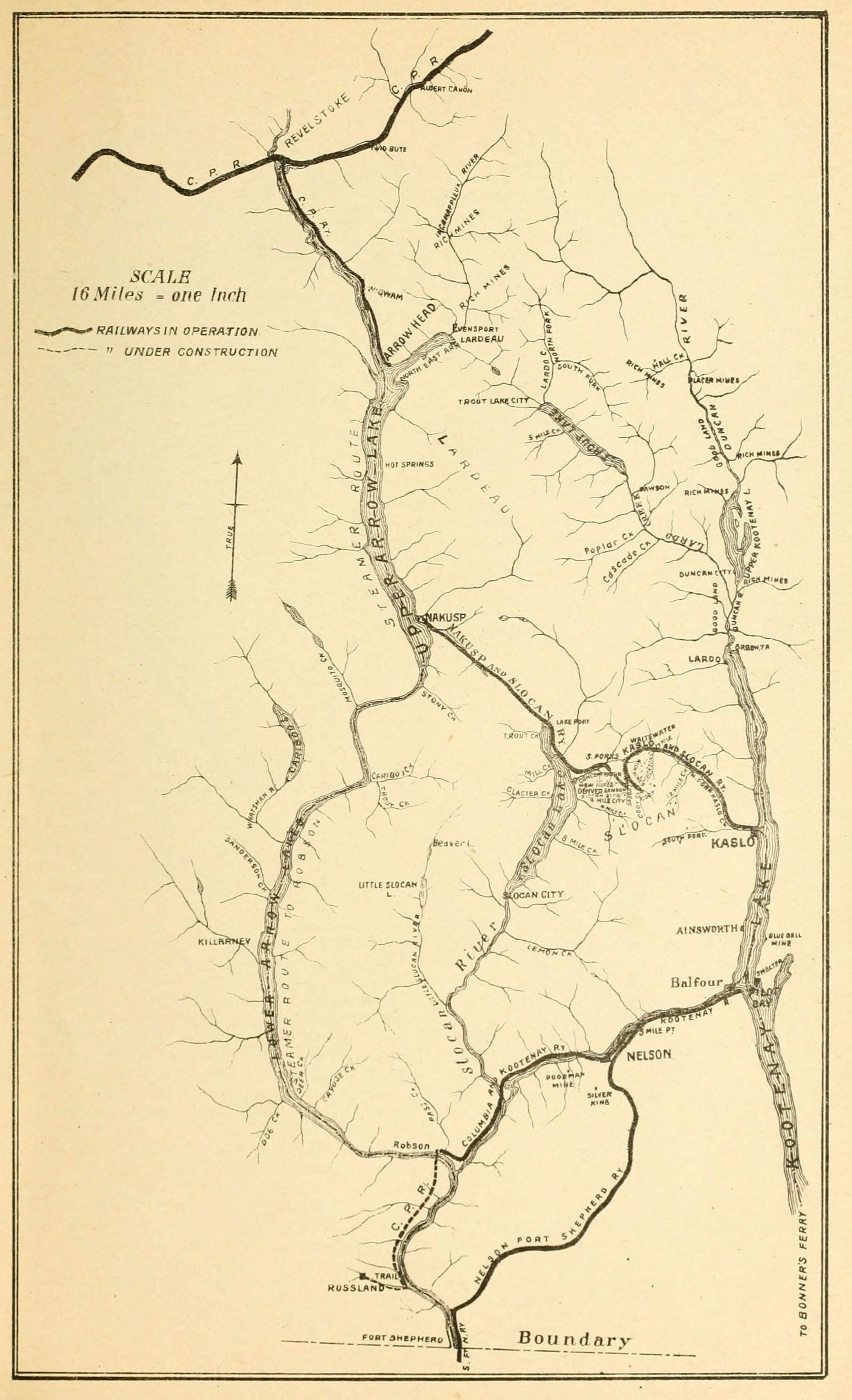 Map showing upper and lower Arrow Lakes and (most of) Kootenay Lake, with steamboat lines, rail lines completed and under construction, and mines and mining areas indicated, published in British Columbia Mining Record in December 1895